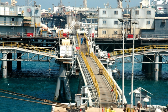 The Al Başrah Oil Terminal (ABOT) is a trans-shipment facility from the pipelines to the tankers. The oil is then sold and exported throughout the world.